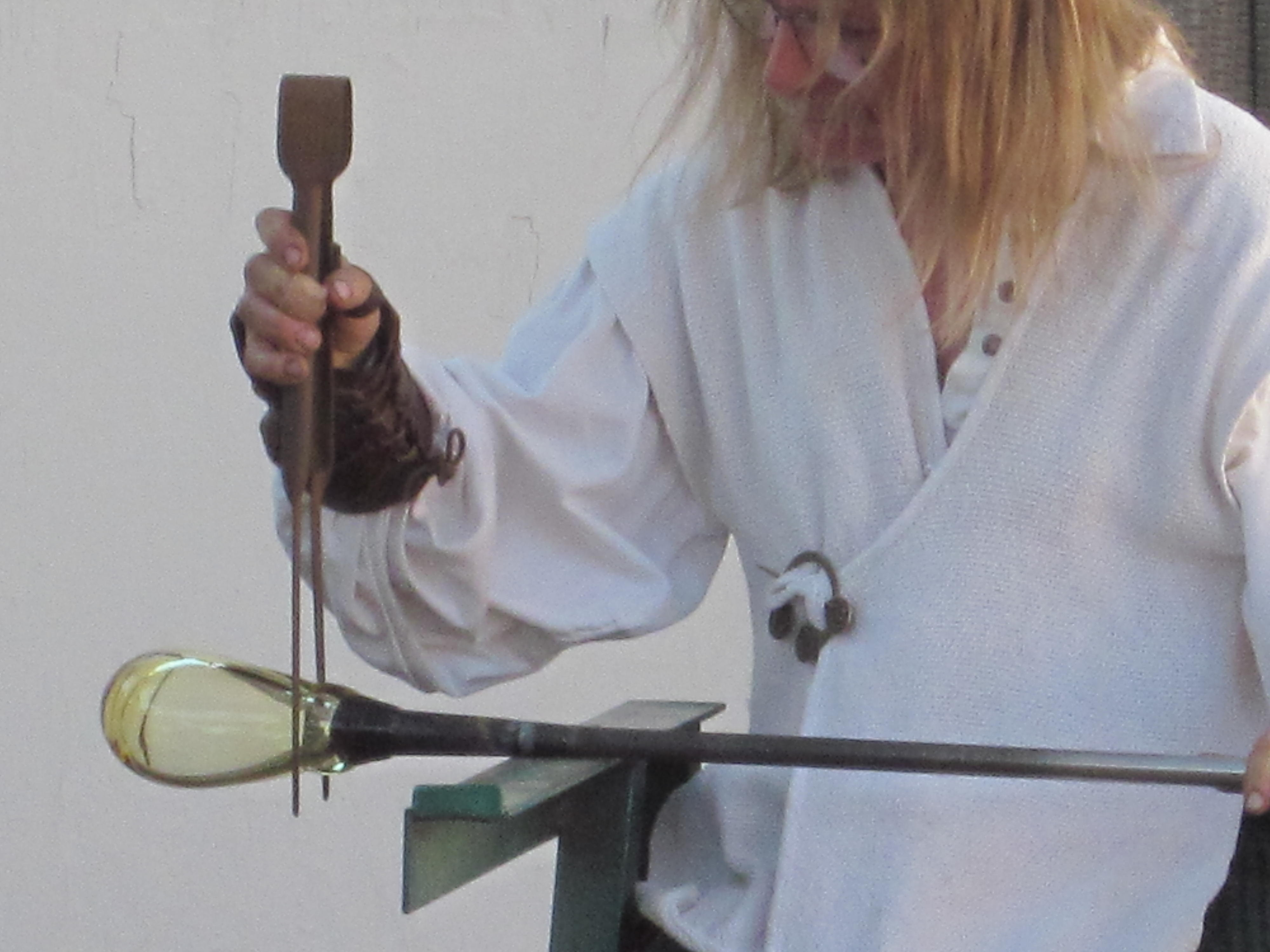 A glassblowing demonstration at the Northern California Renaissance Faire in Santa Clara County.